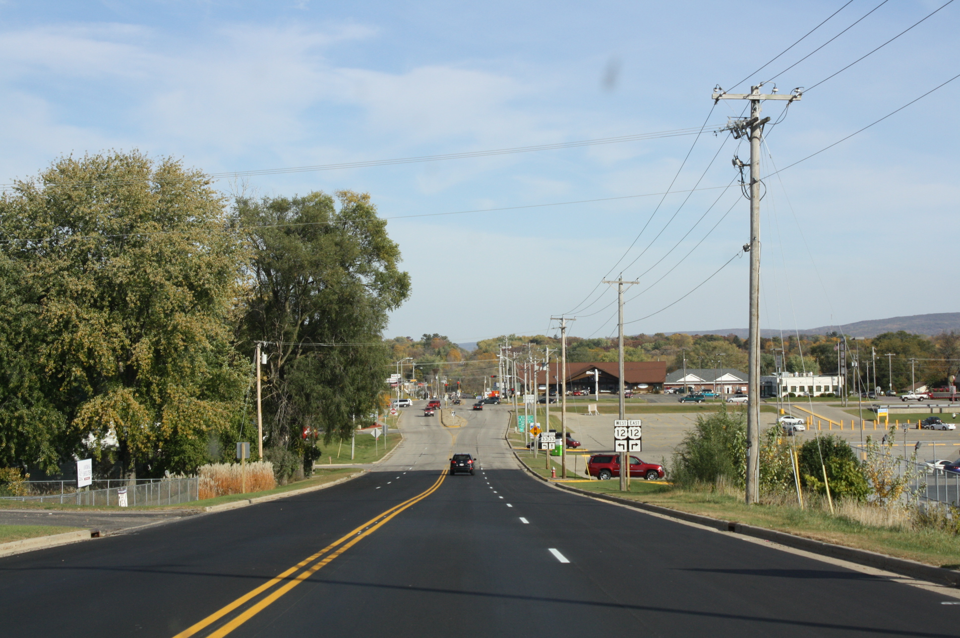 Looking east at West Baraboo, Wisconsin at the eastern terminus for Wisconsin Highway 136.